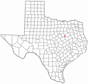 Map of Texas showing location of town of Malone